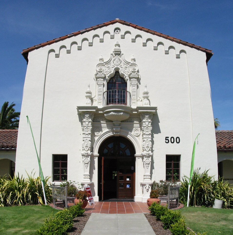 Vertical photo mosaic of two stitched snapshots. Hamilton Air Force Base Headquarters, Building 500.